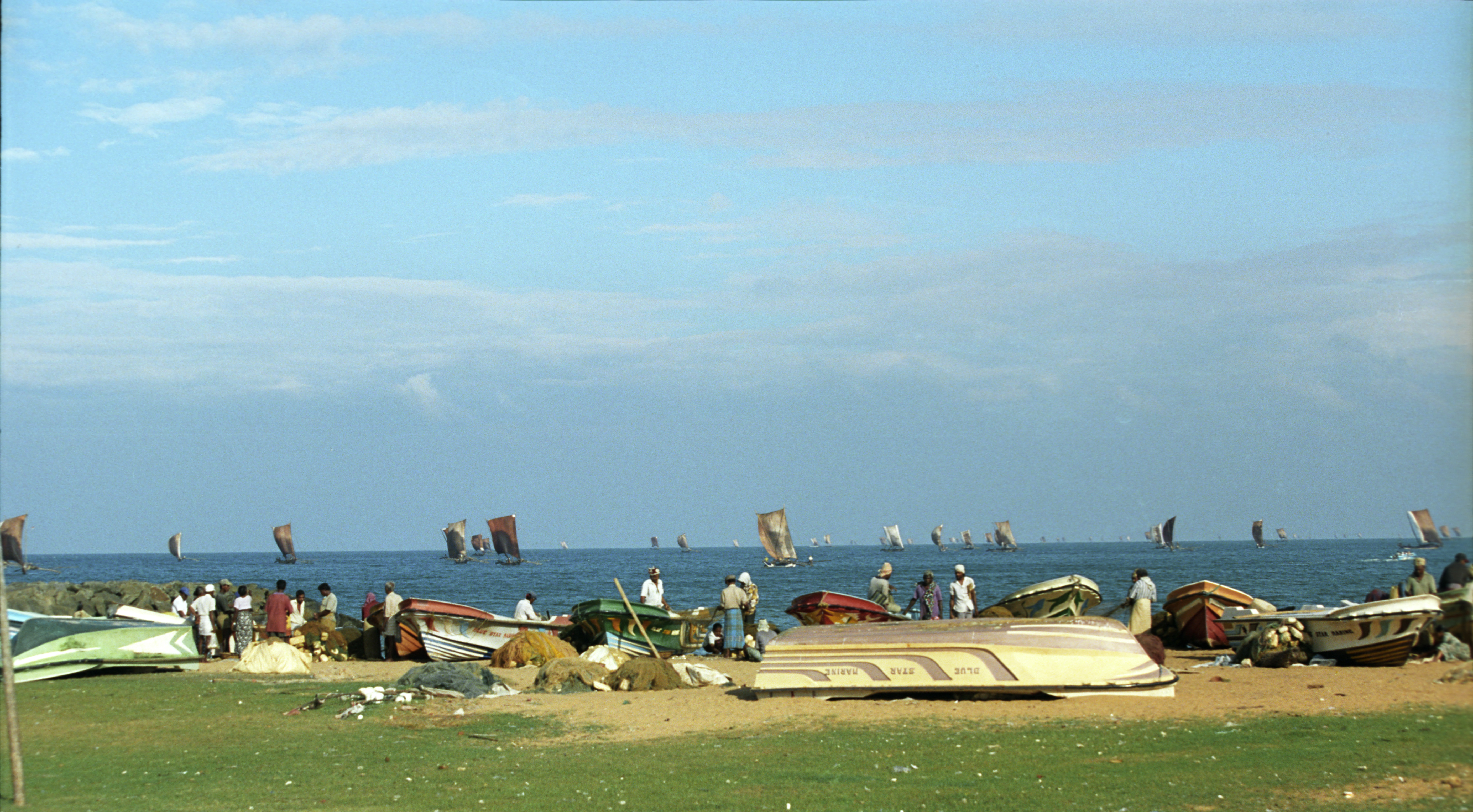 Fishermen, Negombo, Sri Lanka